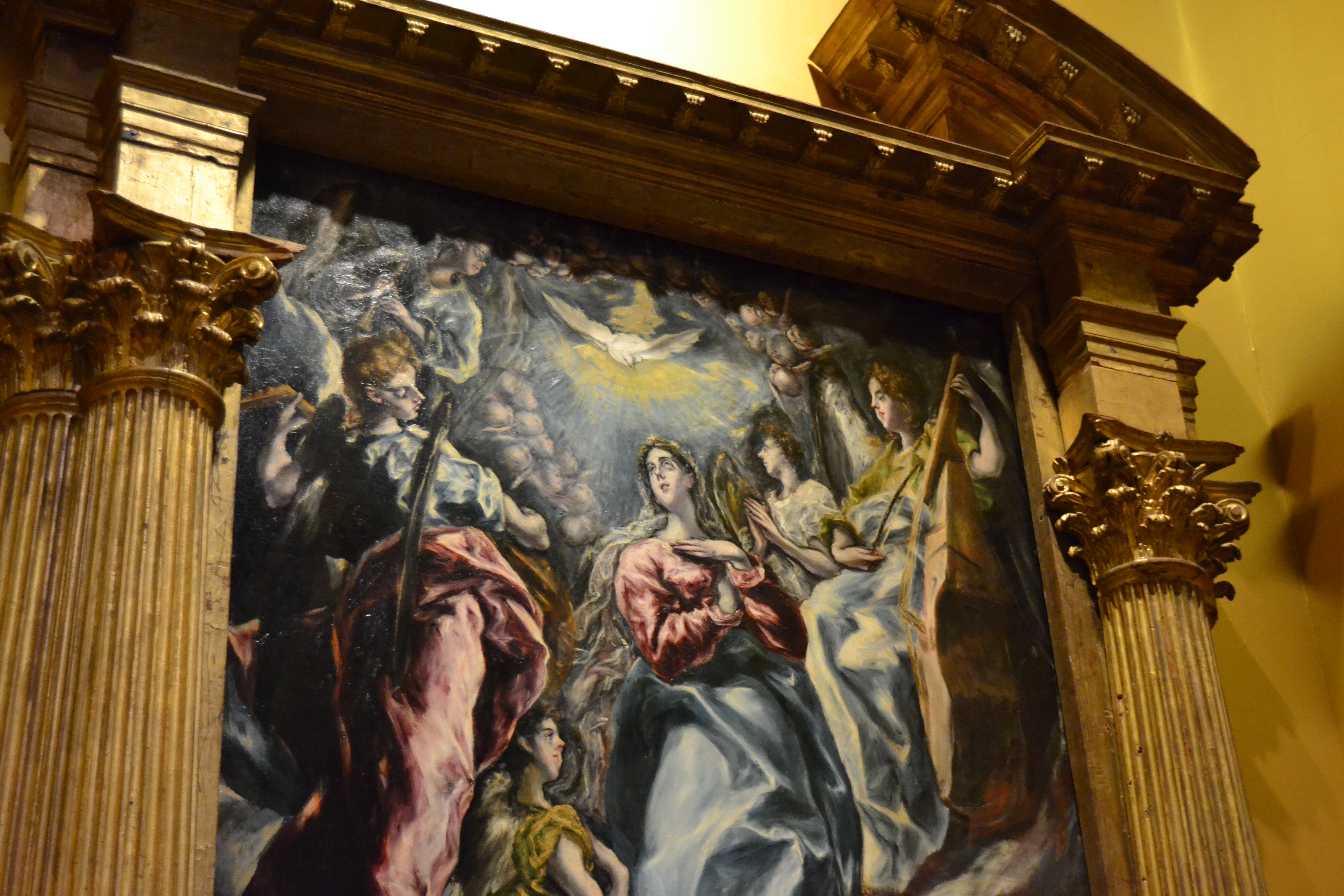 Museo de Santa Cruz, Toledo, Spain